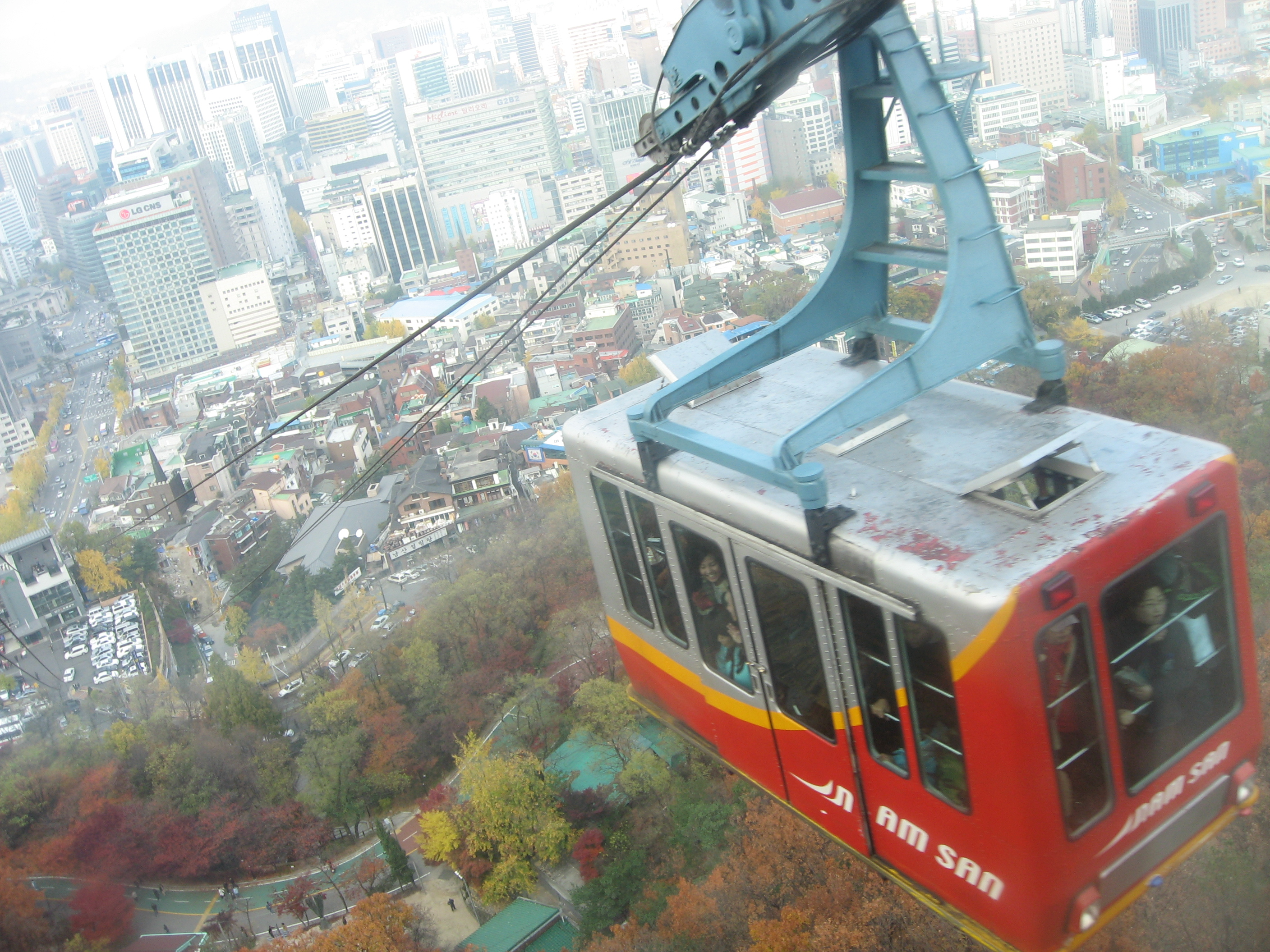 Namsan Cable Car, Seoul, South Korea